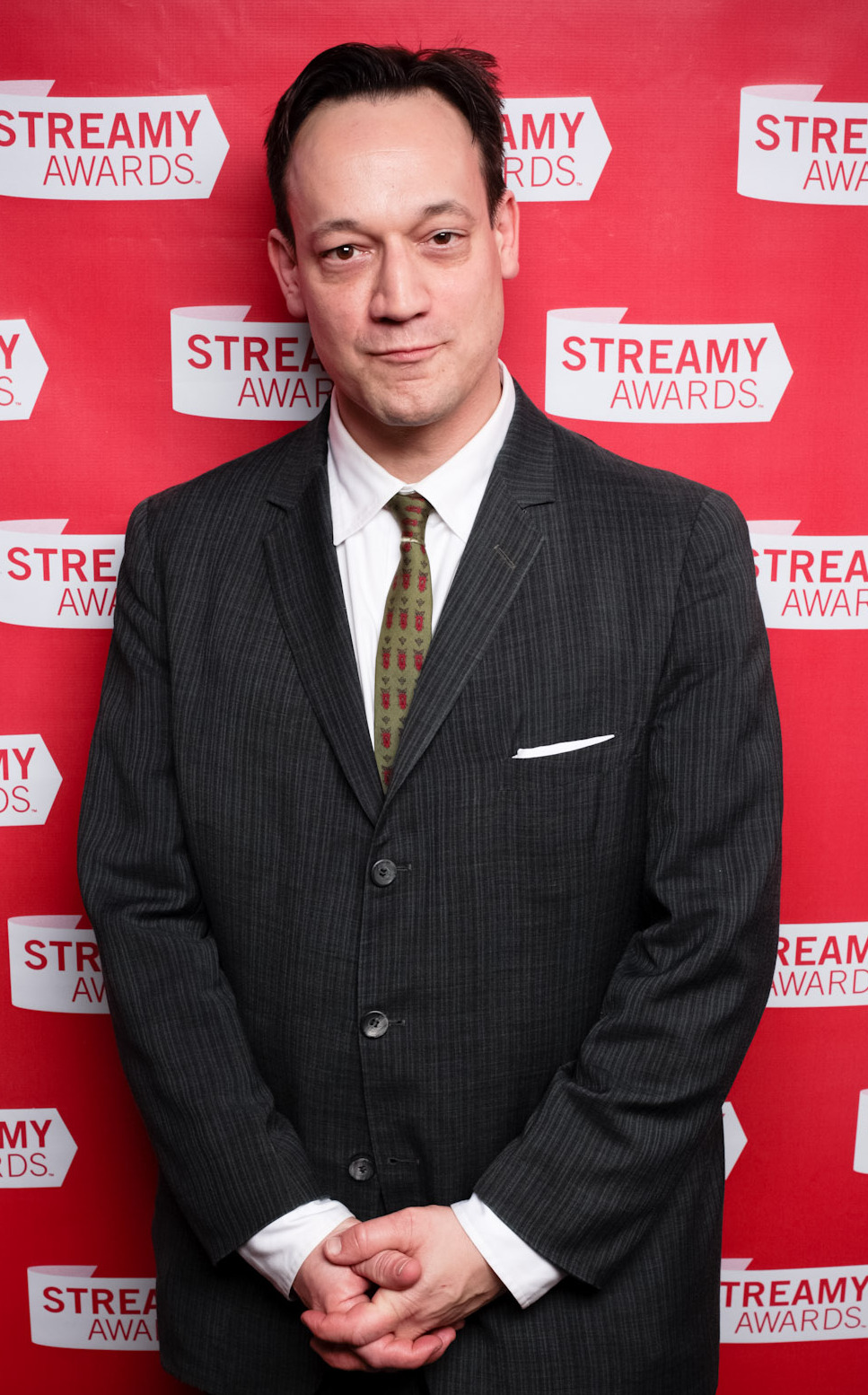 Ted Raimi at the 2010 Streamy Awards